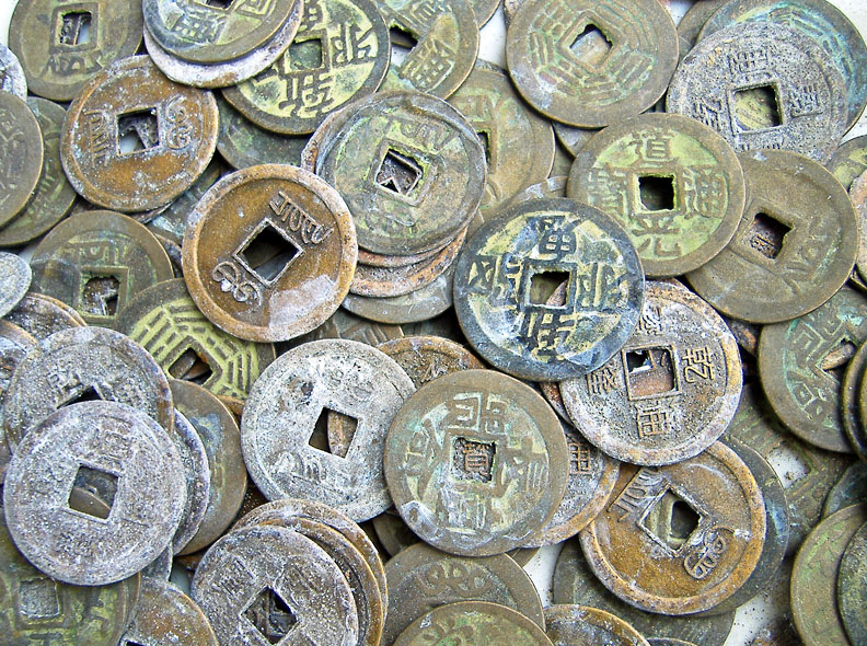 Chinese bronze coins-[foto paul b. toman]